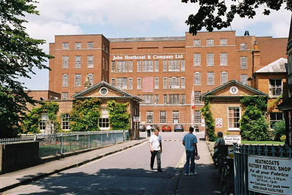 Tiverton: John Heathcoat & Company Ltd Factory. John Heathcoat's first factory here was established in 1815, making machine lace. In 1824 a 24' by 20' waterwheel, cast in Manchester, was installed. The present factory was built in the 20th century